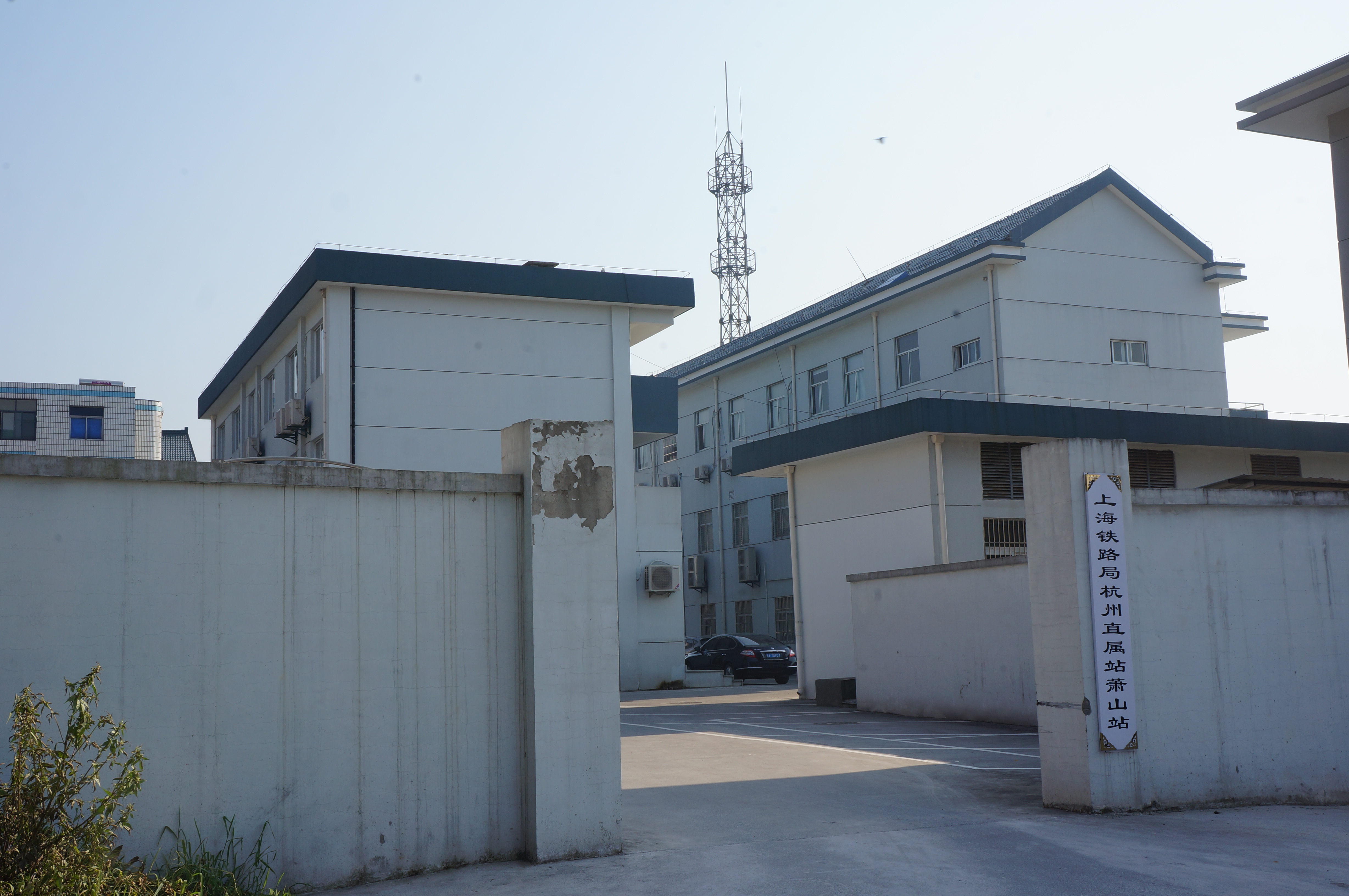 201607 Conductor of Xiaoshan Station